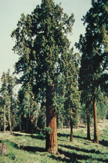 The Black Mountain Beauty tree in the Black Mountain Grove of the Giant Sequoia National Monument, California